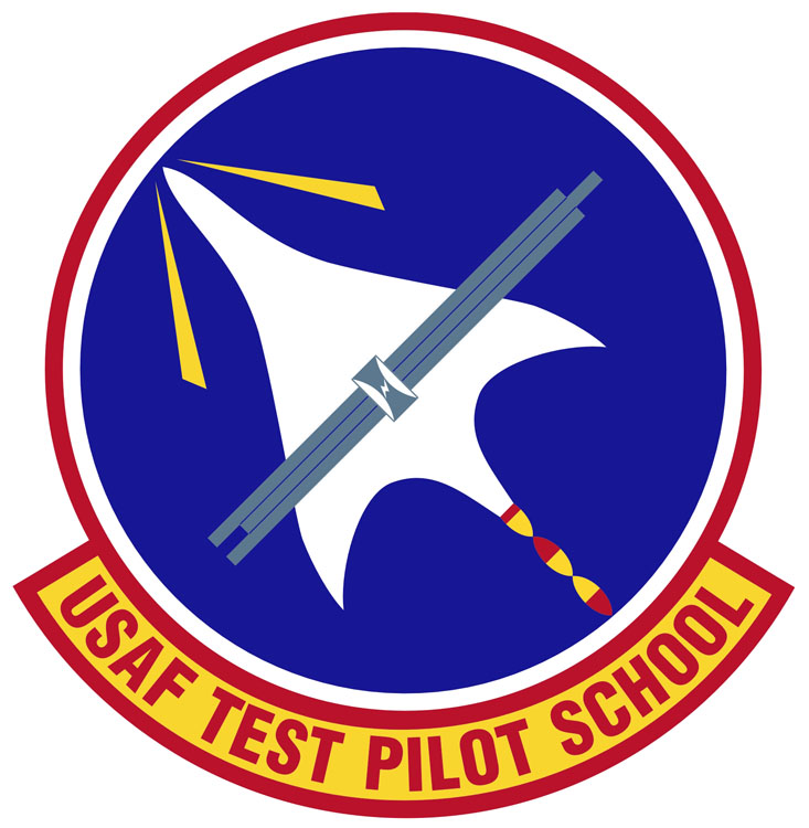 The emblem of the USAF Test Pilot School. Source: 412th Test Wing Public Affairs.